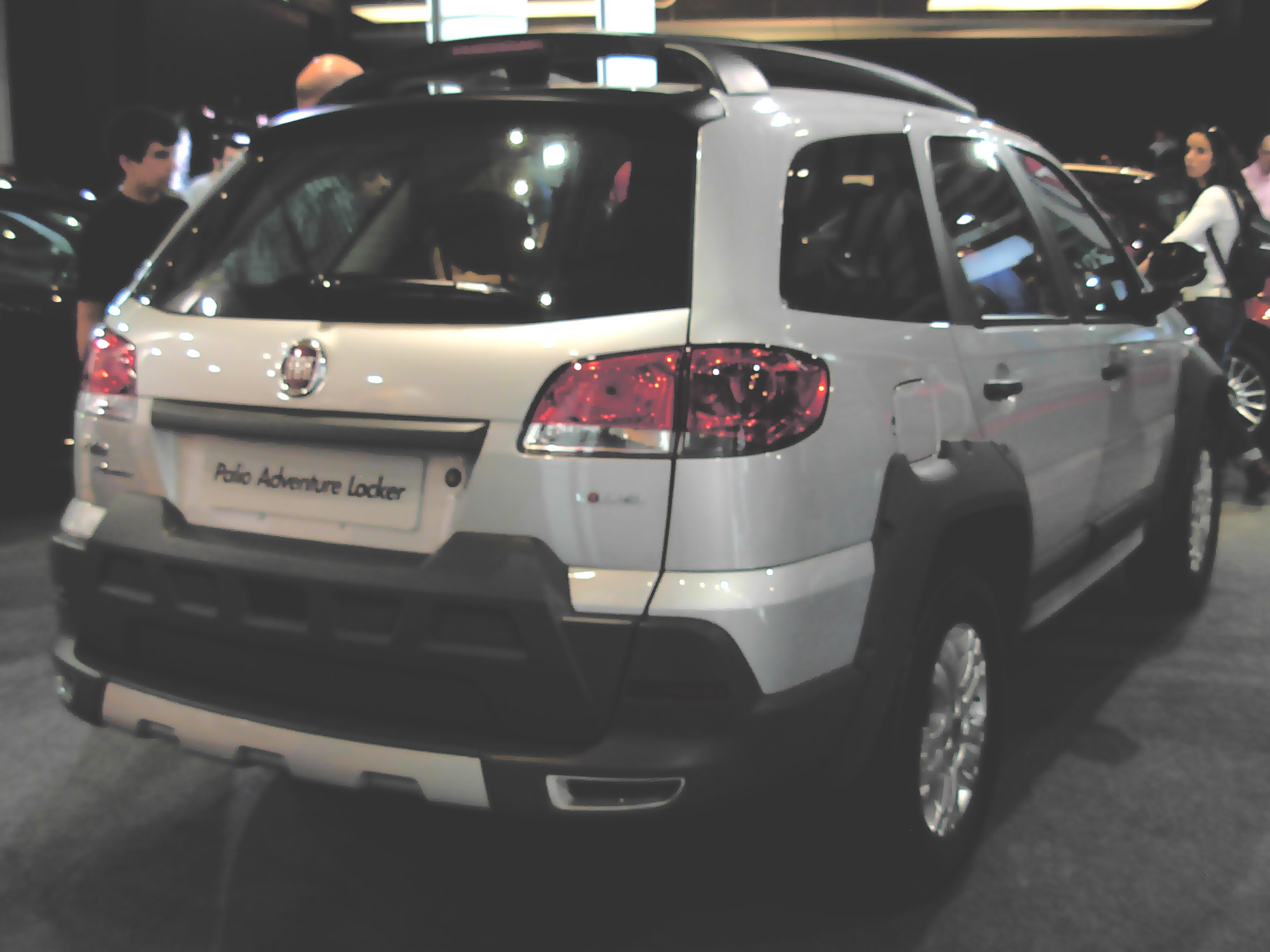 Fiat Palio Adventure Locker 2009 at the 2008 Montevideo Motor Show. Made in Betim, Brasil.